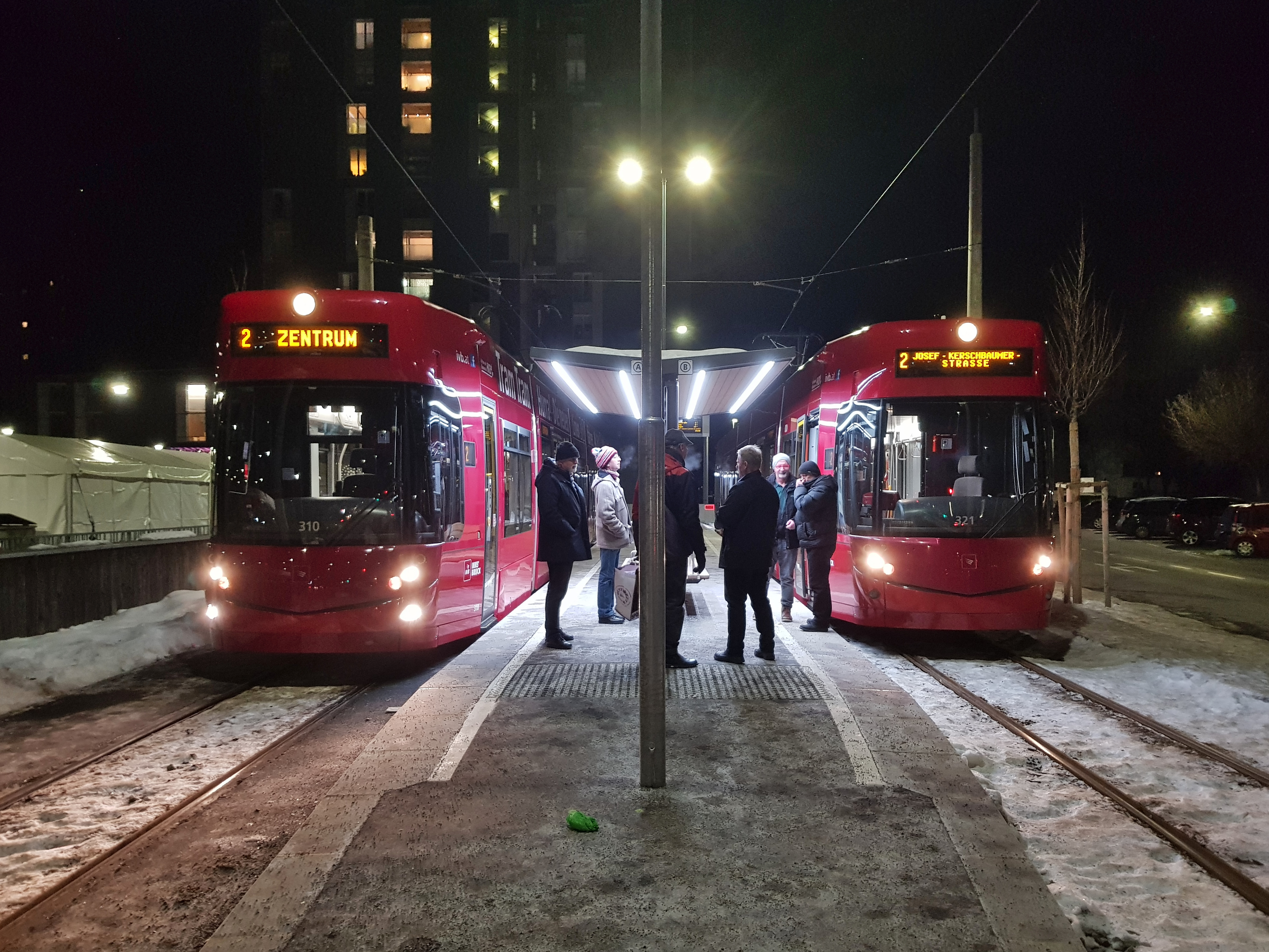 Alois-Lugger-Platz